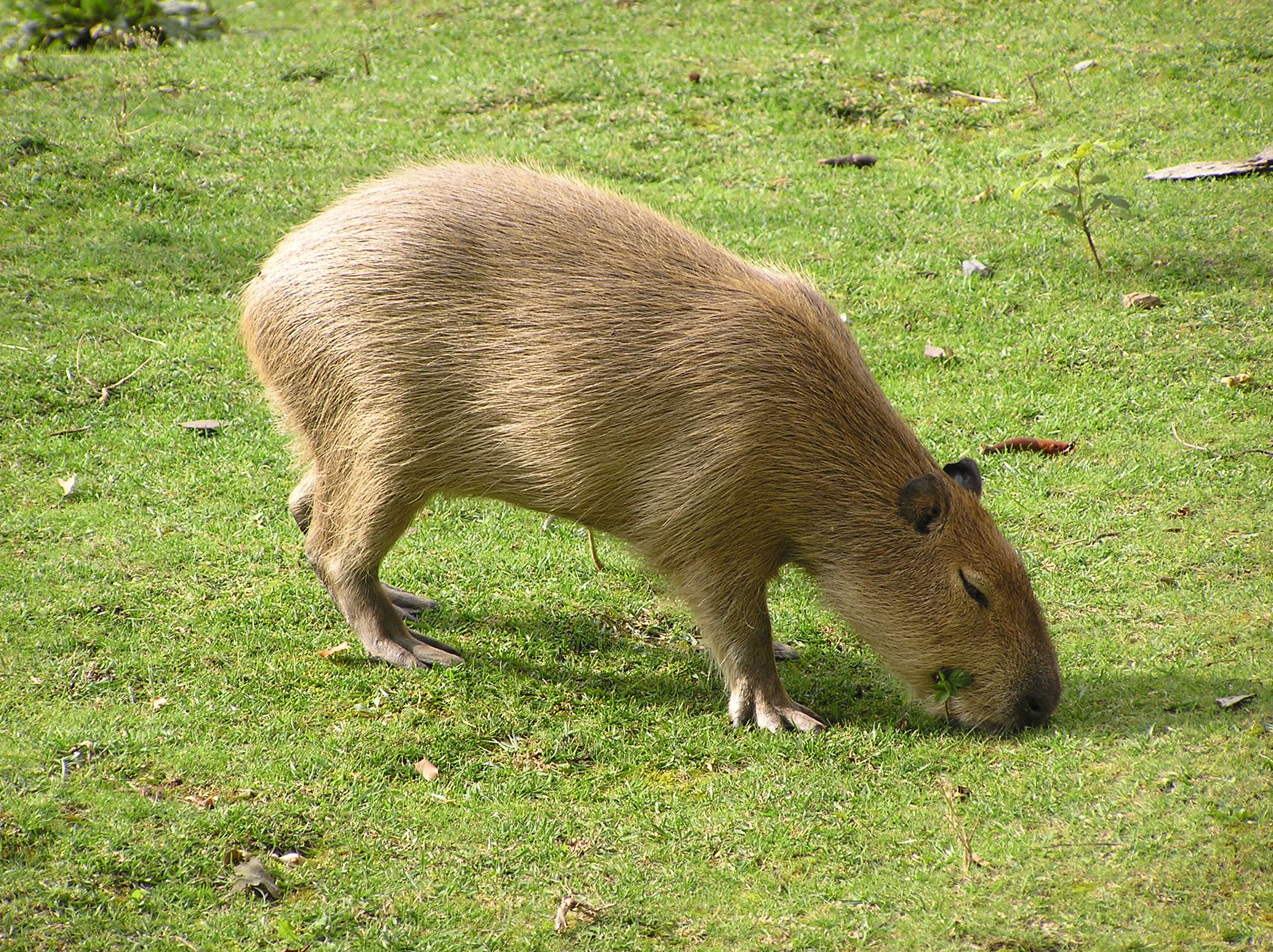 Hydrochoeris hydrochaeris, photographed in Prague ZOO, 2006-09-28.